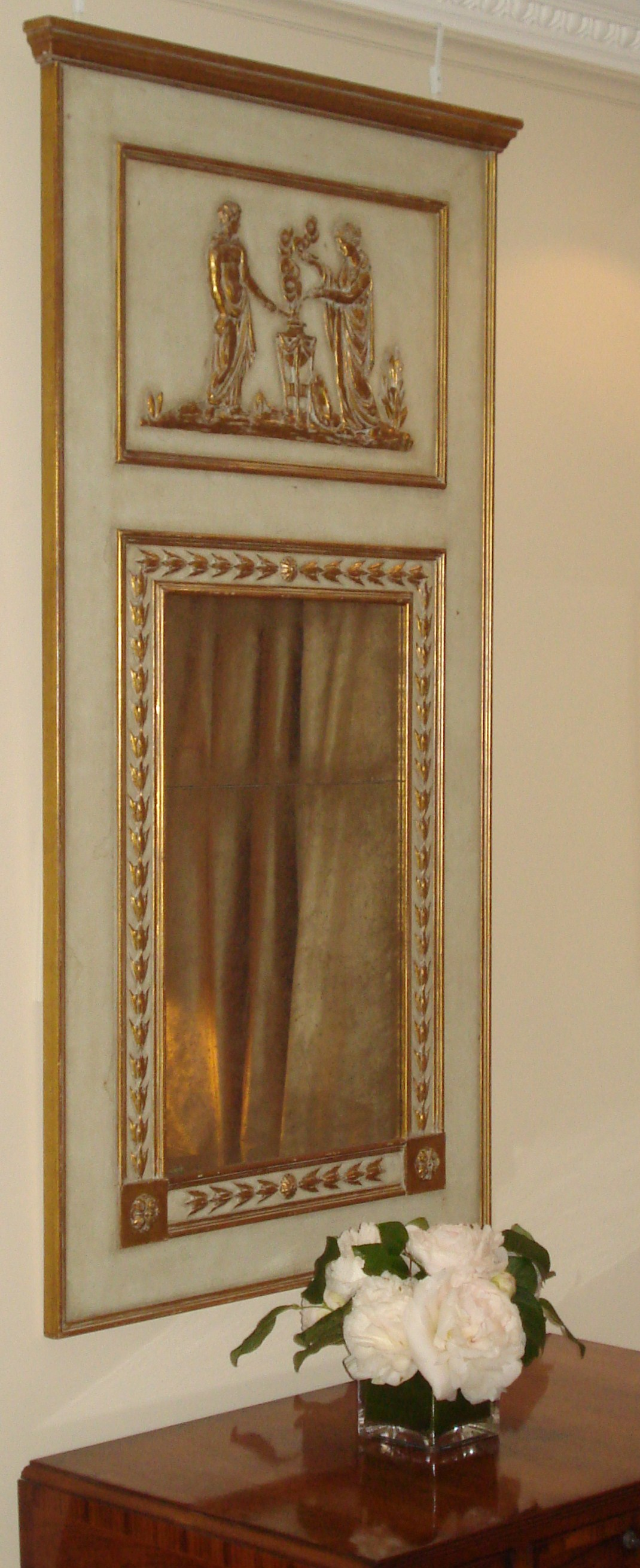 An antique reproduction mirror with reproduction hand applied mercury mirror effect designed in the Trumeau style by Diane Watts Mirrors